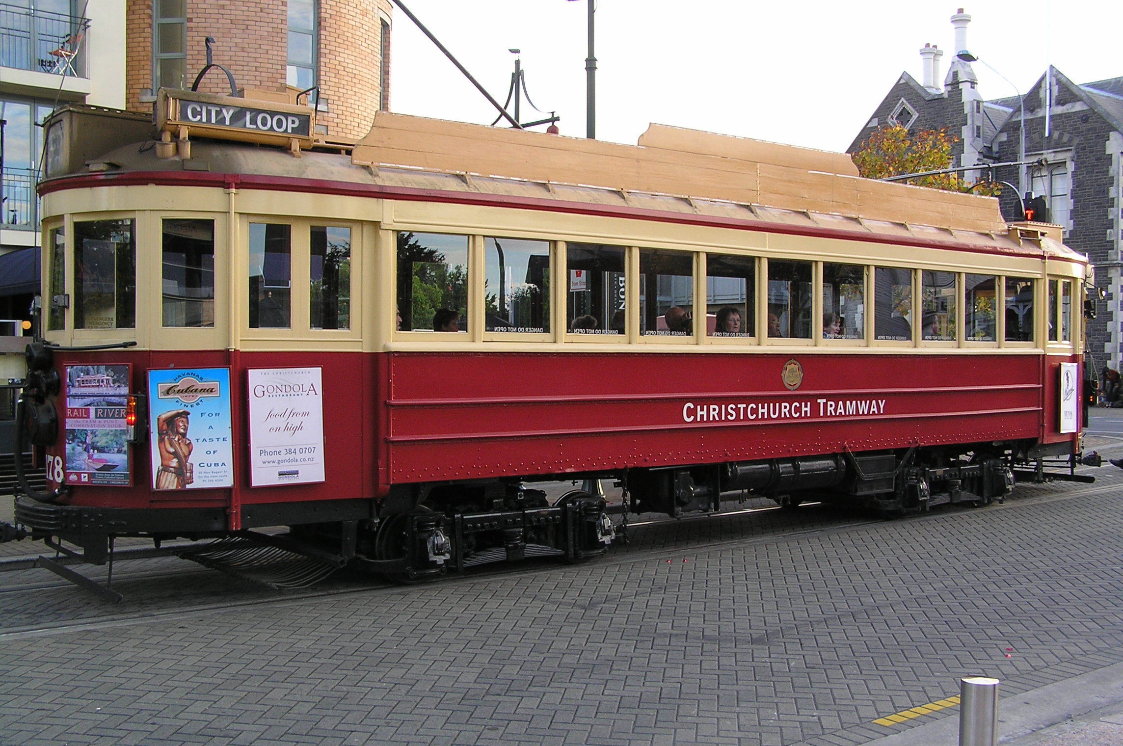 Tram at Worcester St. in Christchurch, New Zealand. Author: Mr. Tickle Date: March, 2005